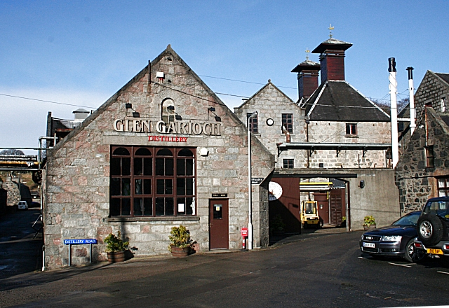 Glen Garioch Distillery This is the most easterly malt whisky distillery in Scotland, though it is now a subsidiary of a company based much further east - Suntory of Japan. (Pronounce it 'GEAR-y'). Tours of the distillery are offered from the visitor centre, which I was surprised to find open in February!